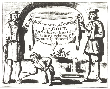 Frontispice of "Two Treatises, The one, Medical, Of the Gout, And its Nature more narrowly search’d into than hitherto, together with a new way or discharging the same. " This book was written by the Dutch clergyman Hermann Buschoff (ca. 1622-1674) who lived in Batavia. It introduced the new remedy Moxa to Europe.